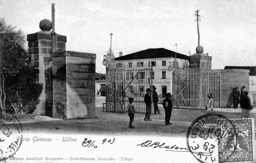 Porta Gemona